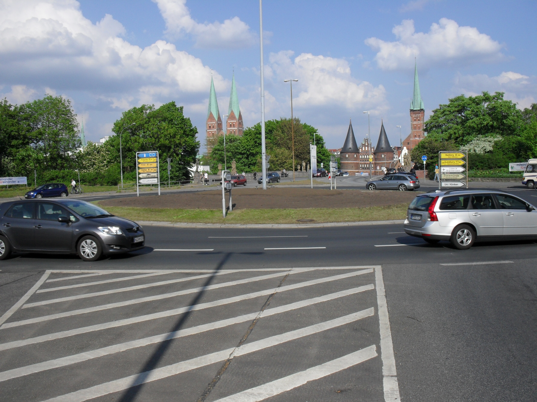 Roundabout Lindenplatz at Lübeck